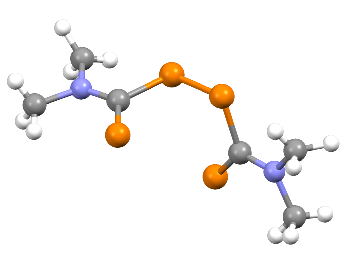 improved (zoomed) image